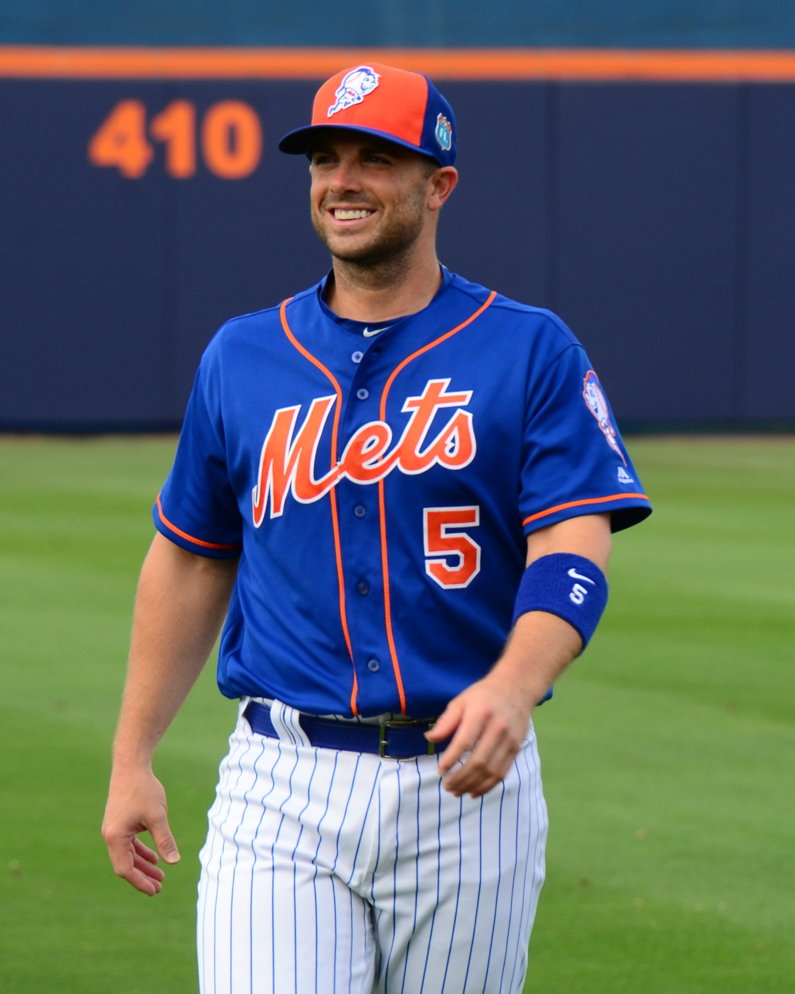 David Wright in March of 2016